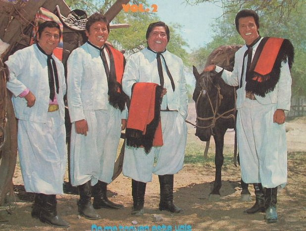 Los Cantores del Alba. Argentina. Folk music.